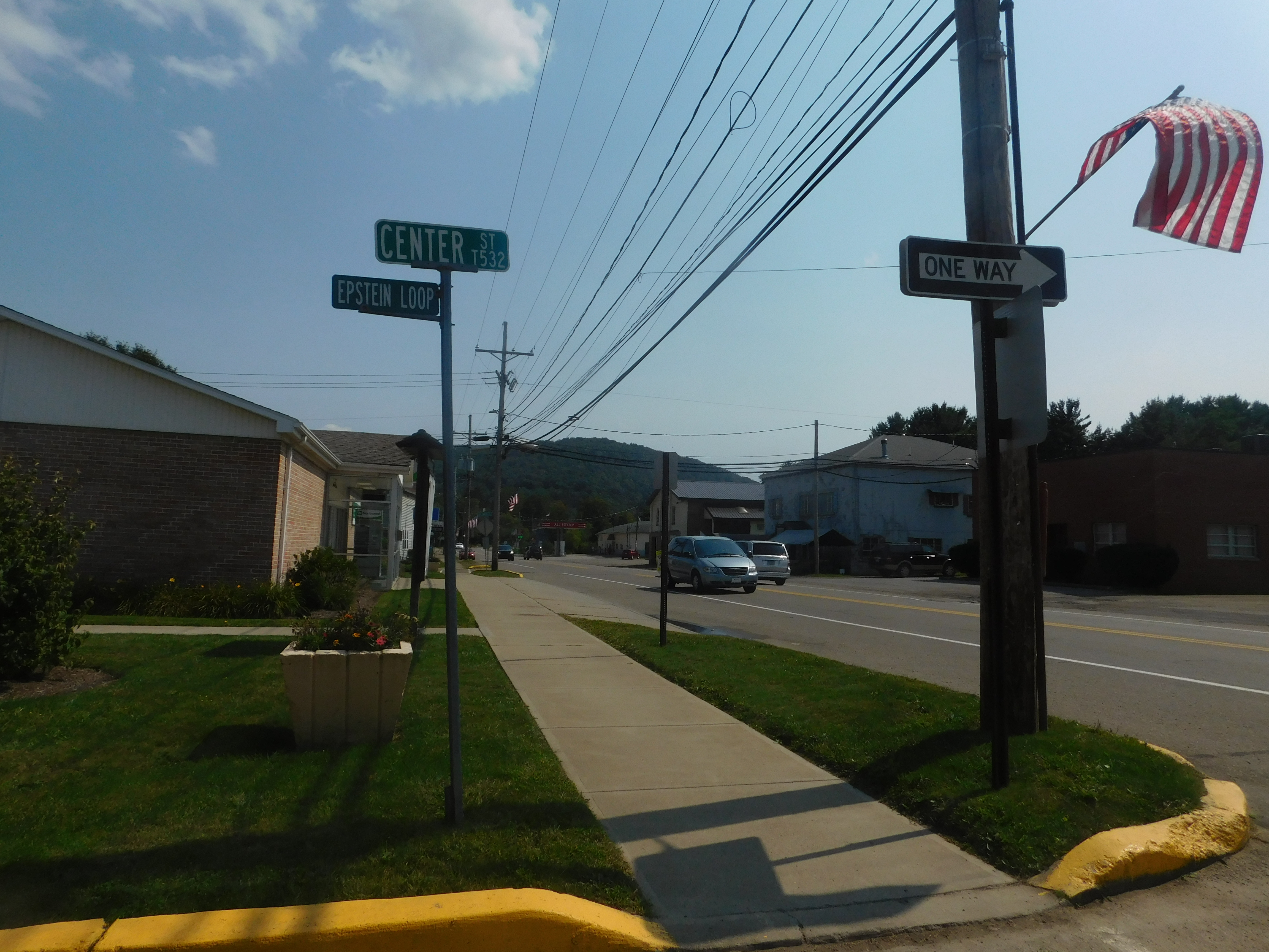 Route 666 through Sheffield, Pennsylvania from a side street.